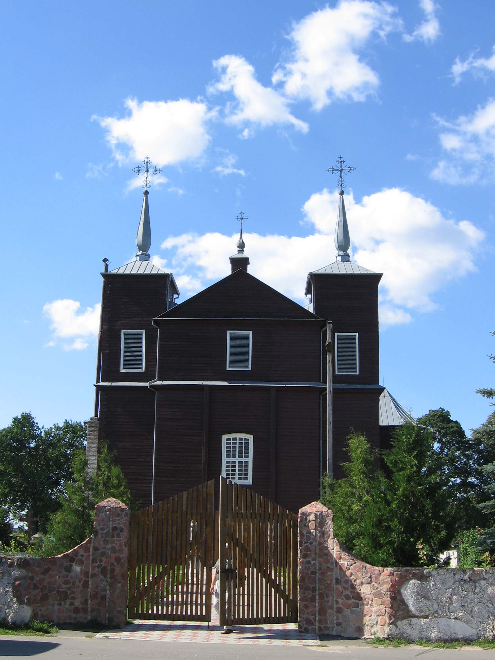 Voupa, Church of St John the Baptist (1773)